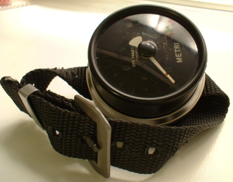 This work is free and may be used by anyone for any purpose. If you wish to use this content, you do not need to request permission as long as you follow any licensing requirements mentioned on this page.